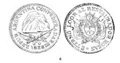 Coat of arms of Argentina.